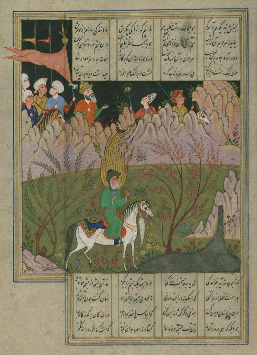 Nizami Ganjavi - Alexander the Great and the Prophet Khidr (Khizr) in Front of the Fountain of Life - Walters W610320AAzərbaycanca: Makdeoniyalı İskəndər və Xızır peyğəmbər həyat bulağının yanında